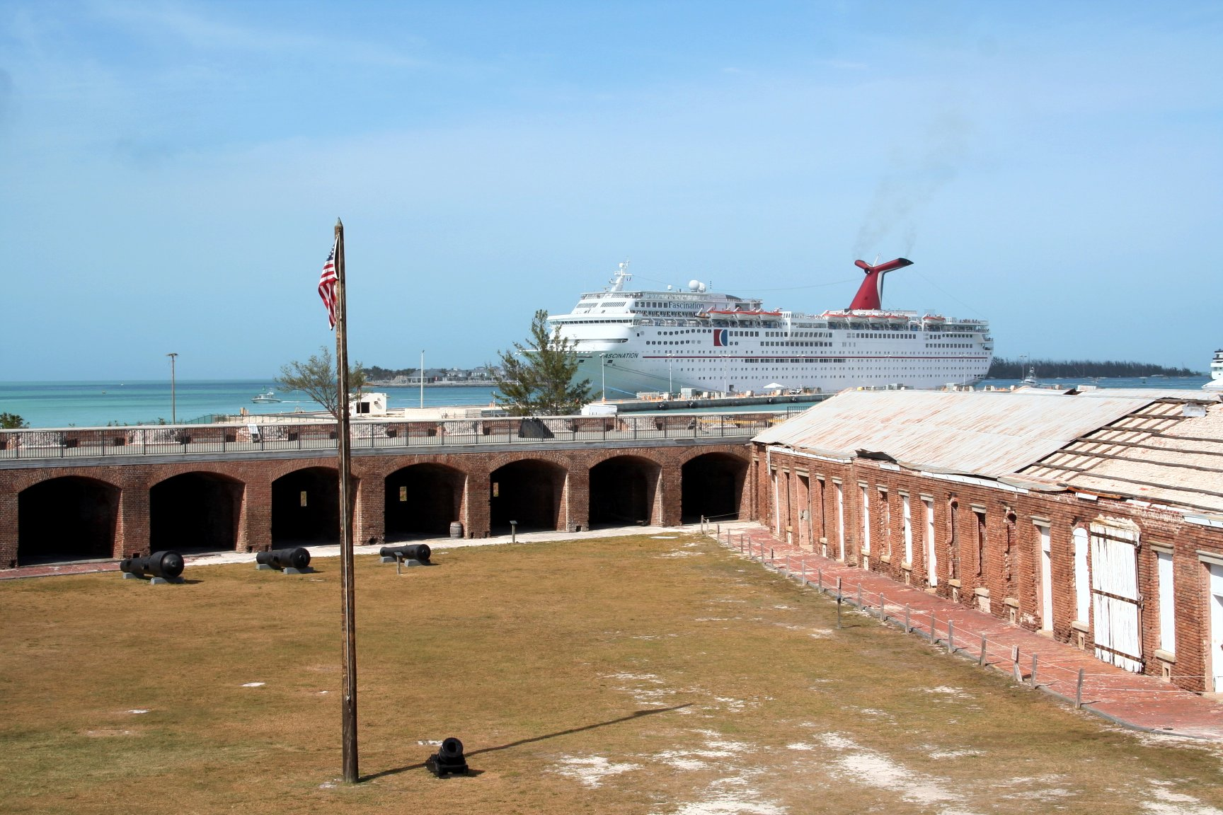 Photograph of the central yard of Fort Zachary Taylor, Key West, Florida, USA taken by Rolf Müller on January 24 2006.